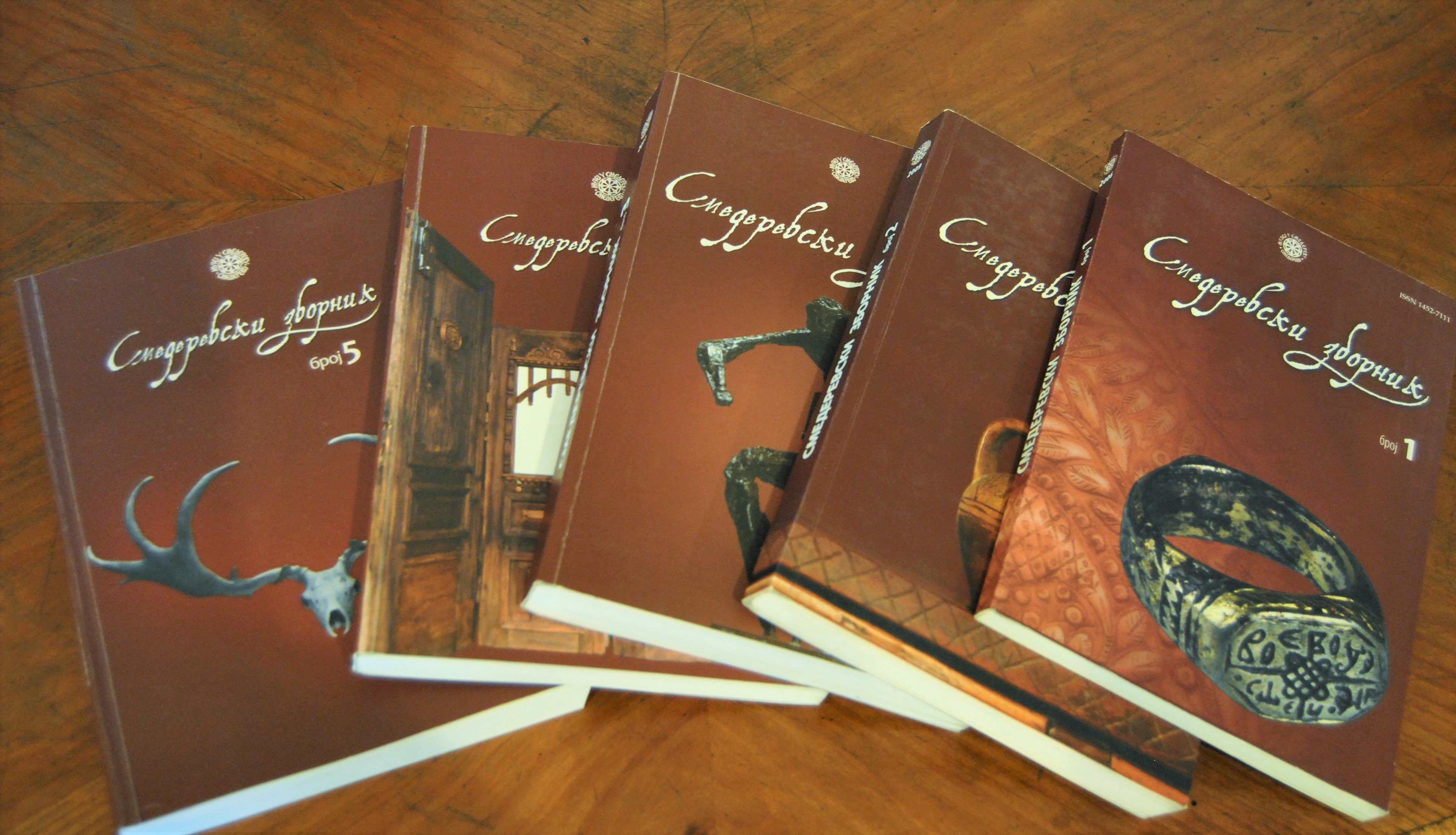 Smederevski zbornik, the first 5 issues